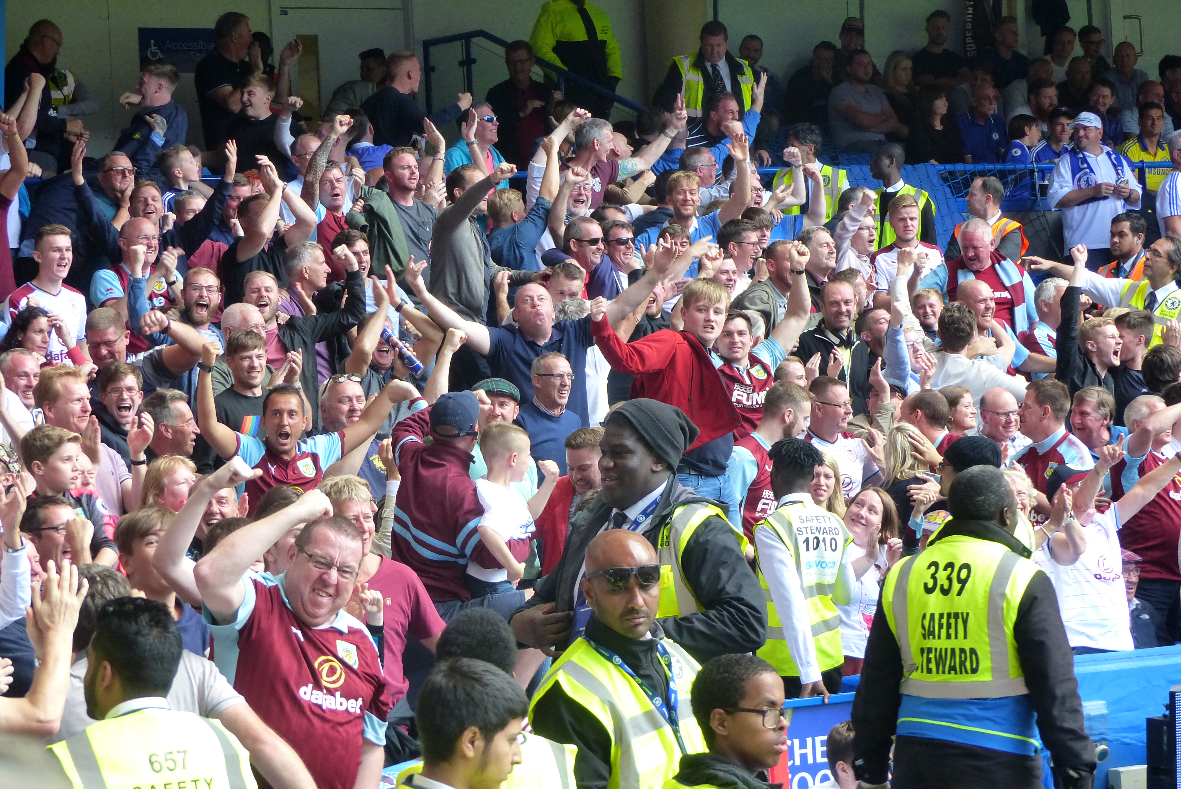 Burnley fans celebrate a goal during their 3-2 away win at Stamford Bridge agianst Champions Chelsea